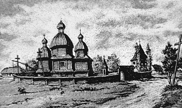 Orthodox church in Tyszowcy (district Dębina) in 1890.